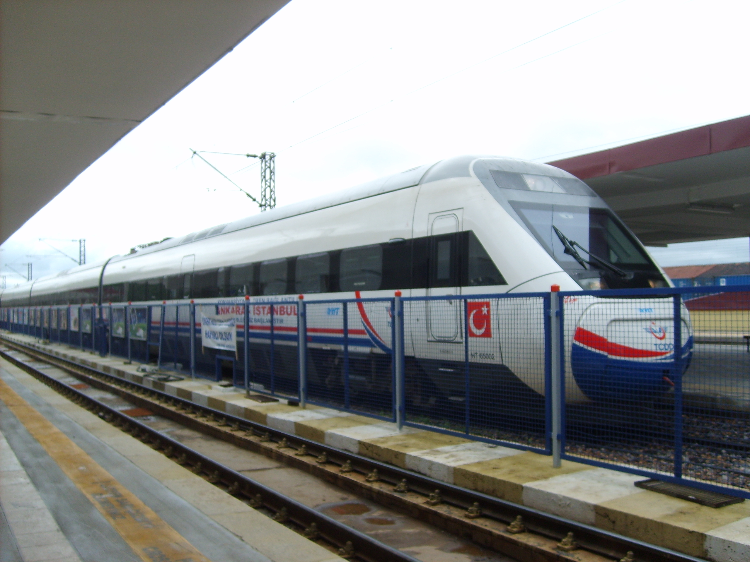 High-speed Rail at Eskişehir Station in Türkiye